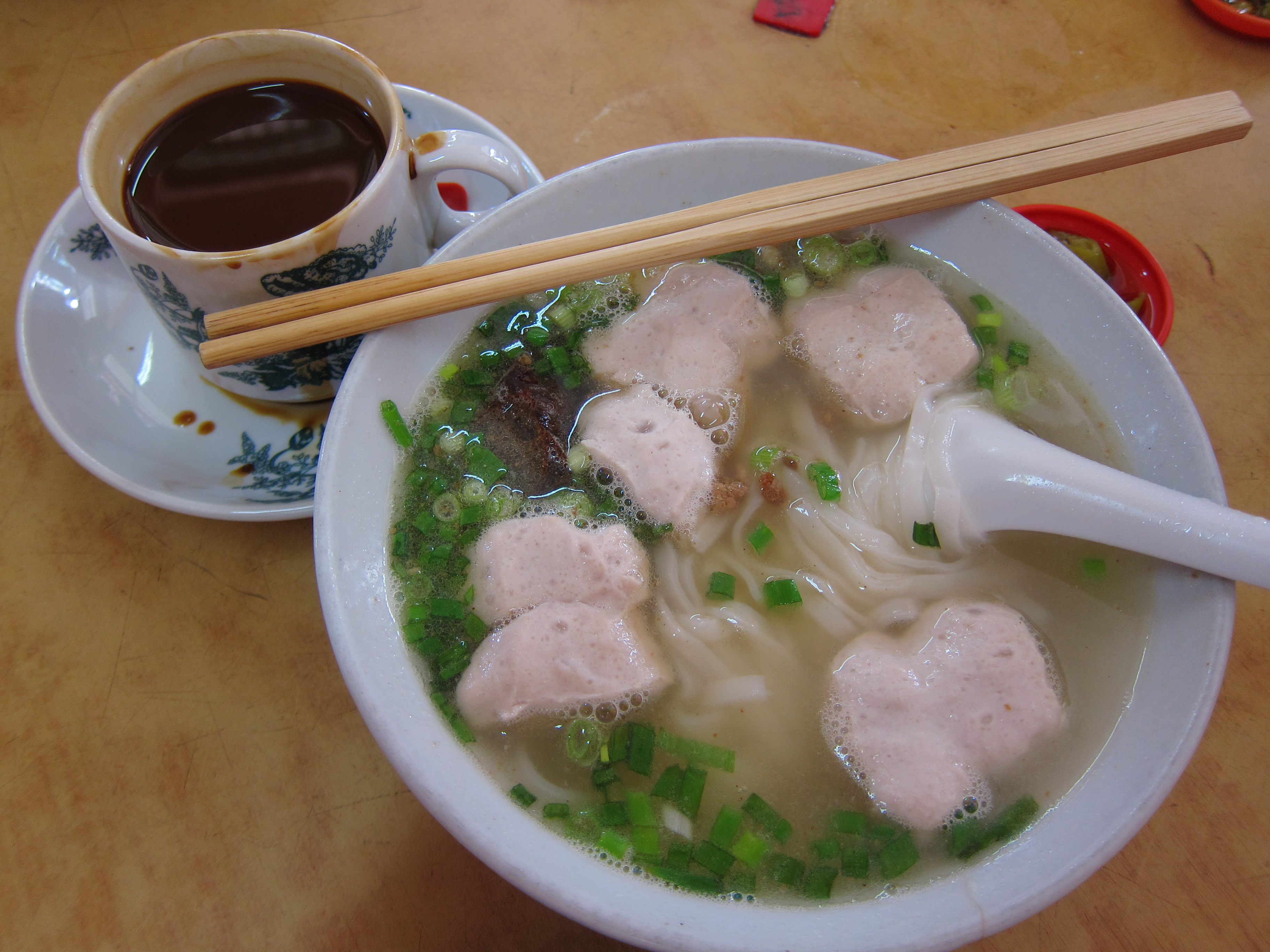 soup pork ball noodle in KL